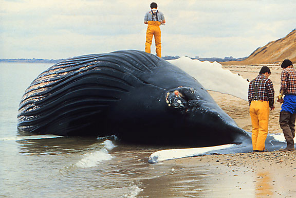 Photo of a dead whale on the beach, with the caption of the original photo stating, "Over 50 percent of unusual marine mammal mortality events are caused by harmful algal blooms."